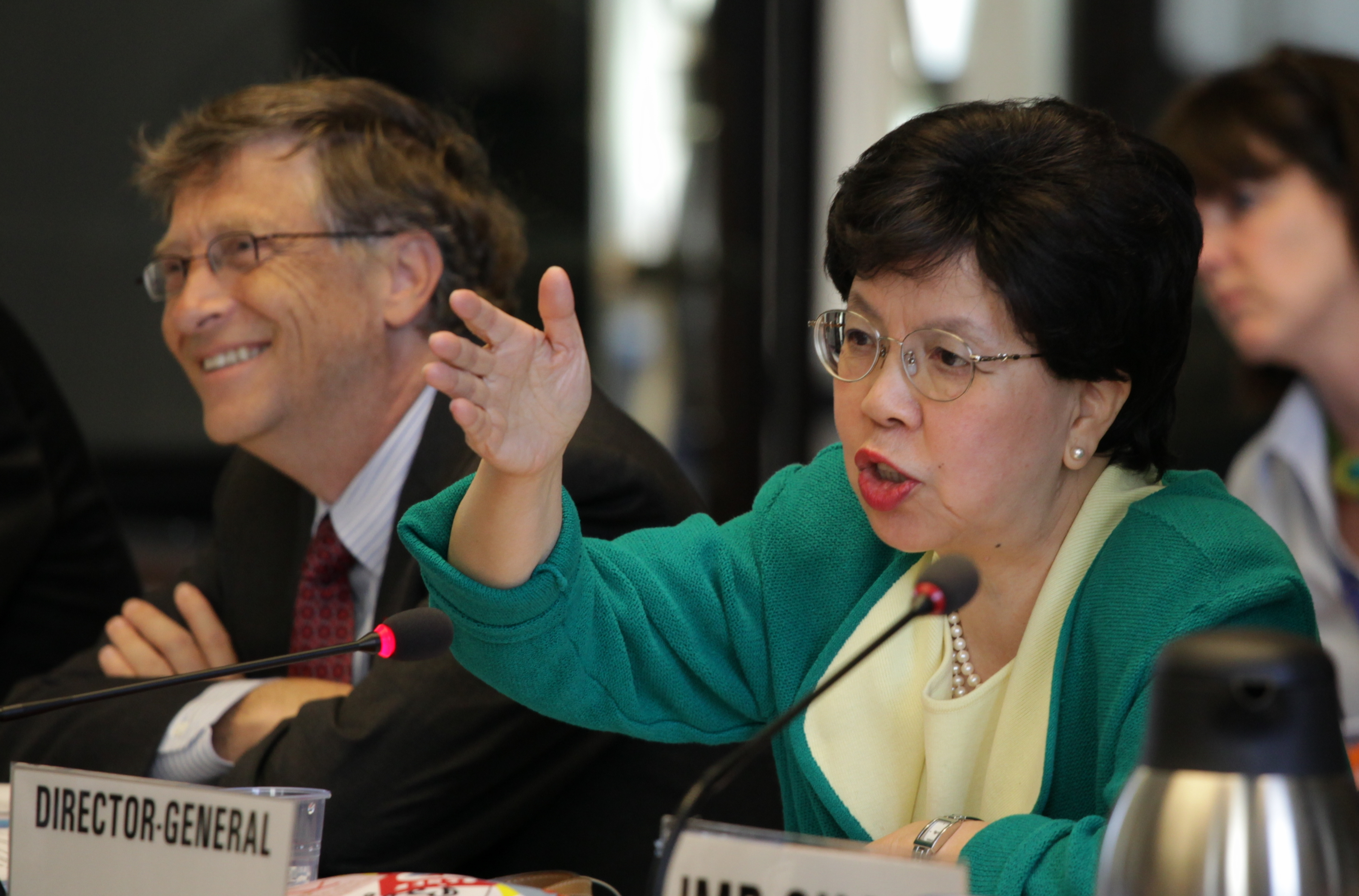 World Health Assembly 2011: The Bill & Melinda Gates Foundation organized a meeting on ending Polio. Public health officials from almost 200 nations are meeting in Geneva May 16-24, trying to devise strategies to address the many health problems that shorten life and diminish its quality for millions of people. U.S. Secretary of Health and Human Services Kathleen Sebelius is leading the U.S. delegation of about 25 to the World Health Assembly, which is the annual gathering for member states of the World Health Organization (WHO). A major focus of the meeting will be WHO's first Global Status Report on Noncommunicable Diseases which found that diseases such as cancer, cardiovascular disease, respiratory disease and diabetes cause the greatest number of deaths each year – 63 percent of all deaths worldwide in 2008. U.S. Mission Photo by Eric Bridiers